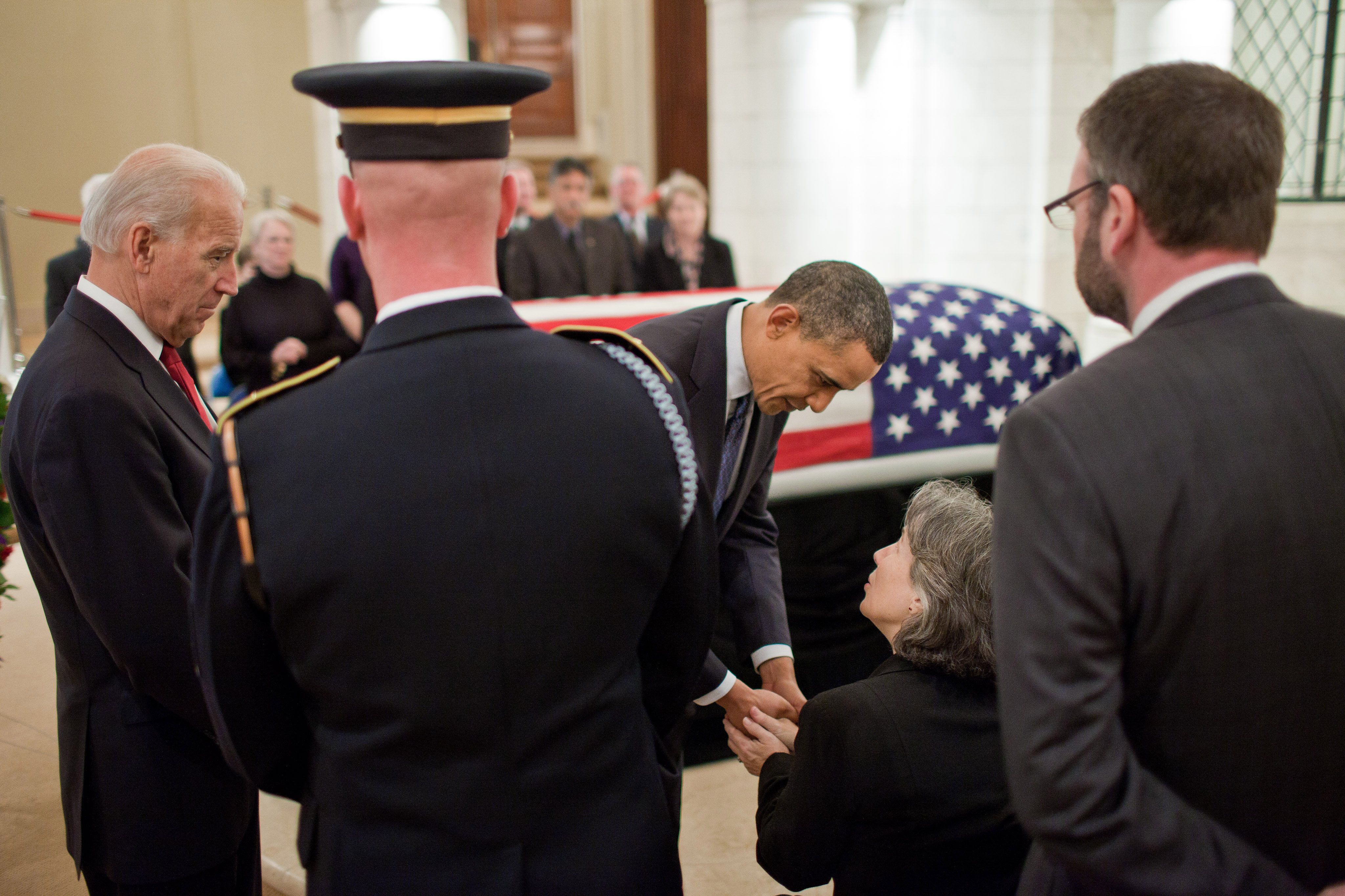 President Barack Obama and Vice President Joe Biden greet Susannah Flanagan, daughter of Frank Buckles, at Arlington National Cemetery Memorial Chapel in Arlington, Va., March 15, 2011. Buckles, the last surviving American World War I veteran, passed away on Feb. 27, 2011, at his West Virginia home. He was 110.